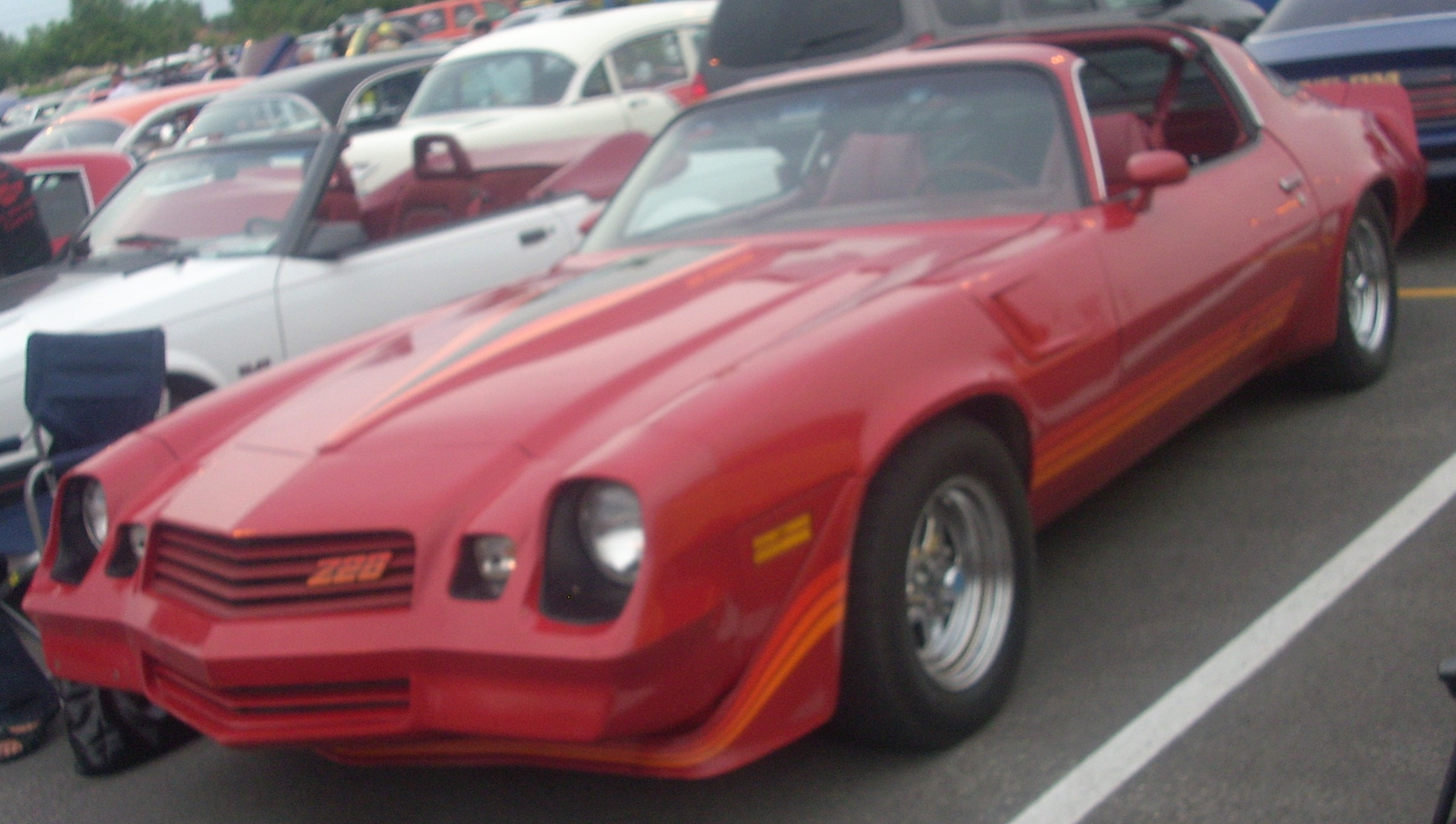 1981 Chevrolet Camaro Z28 photographed in Laval, Quebec, Canada at Centropolis Laval.